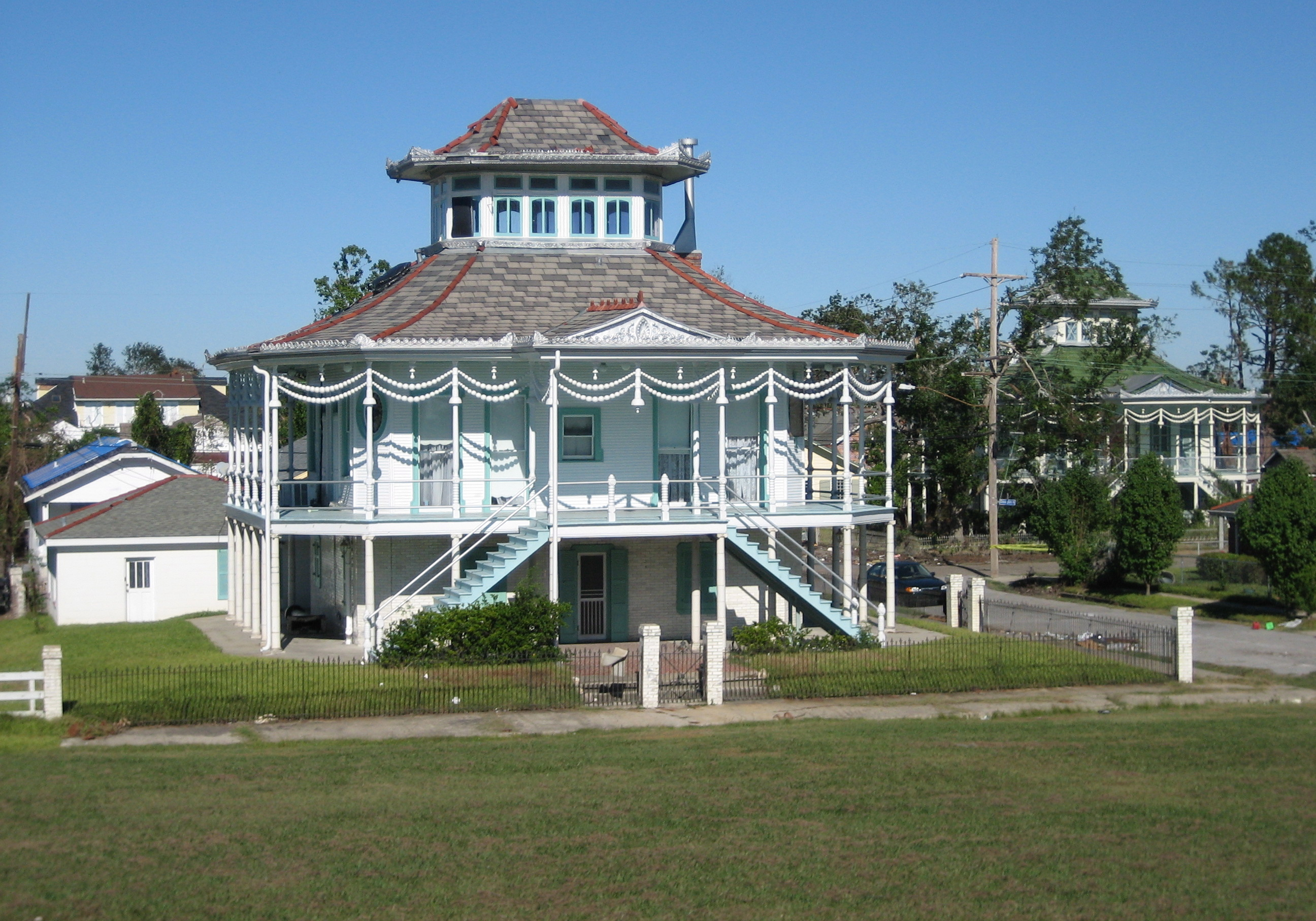 New Orleans: "Doullut Houses" or "Steamboat Houses" in the Lower 9th Ward by the Mississippi River Levee. Unusual houses influenced by architecture of steamboats and Japanese exhibit at the 1904 World's Fair are a neighborhood landmark.